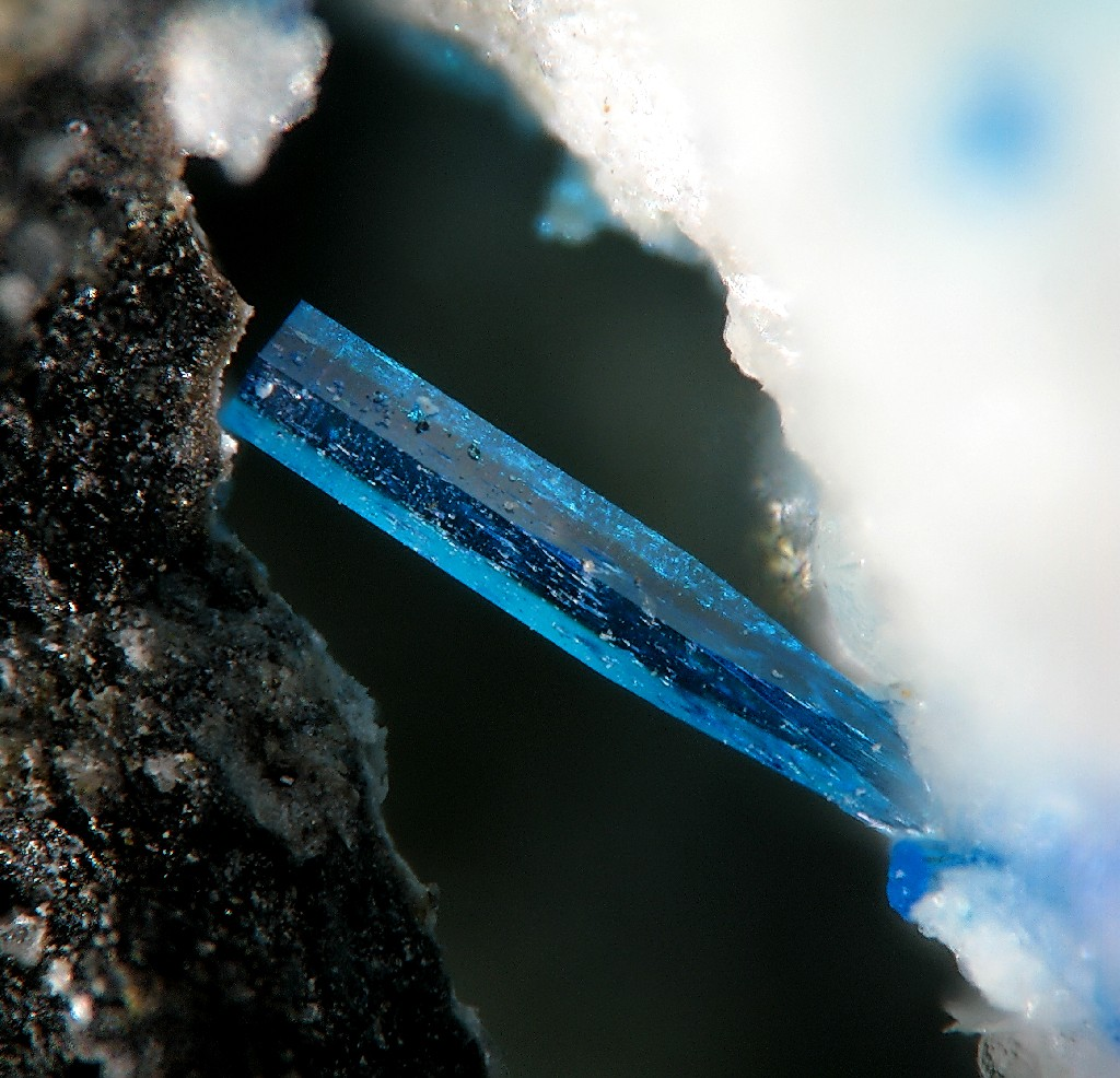 Diaboleite Locality: Thorikos Bay slag locality, Thorikos area, Lavrion District slag localities, Lavrion (Laurion; Laurium) District, Attikí (Attica; Attika) Prefecture, Greece Picture width 0.8 mm. Collection and photograph Christian Rewitzer